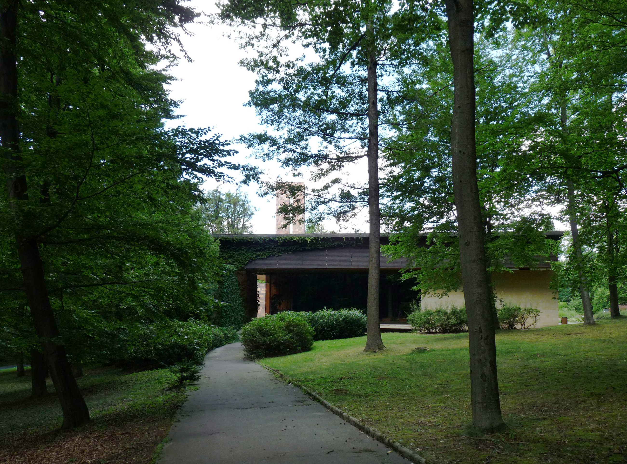 Woodland cemetery in the town of Zlín, Zlín Region, Czech Republic.